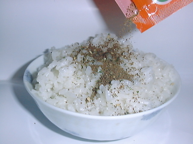 Furikake on the Rice